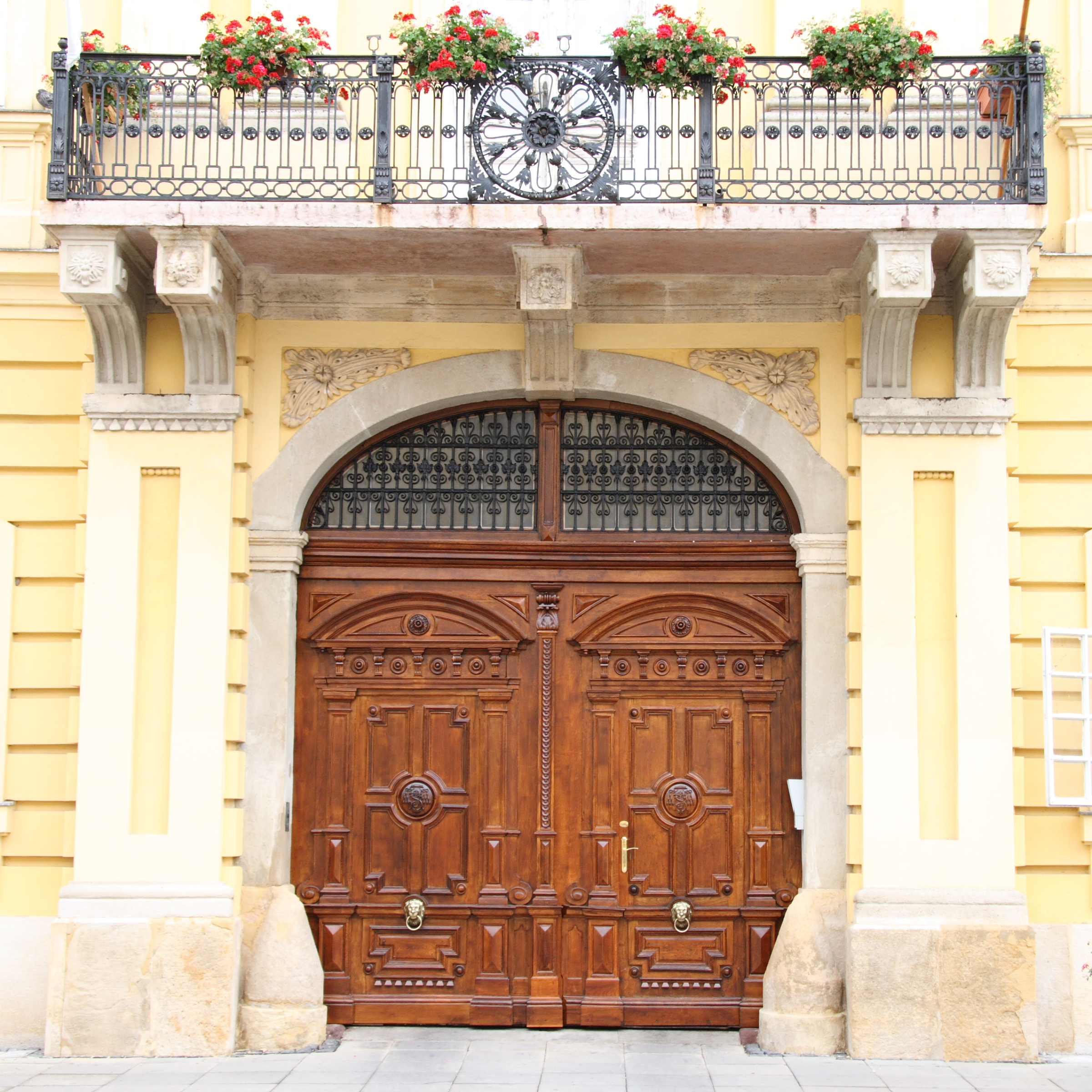 Main Entrance of the Episcopal Palace, Székesfehérvár